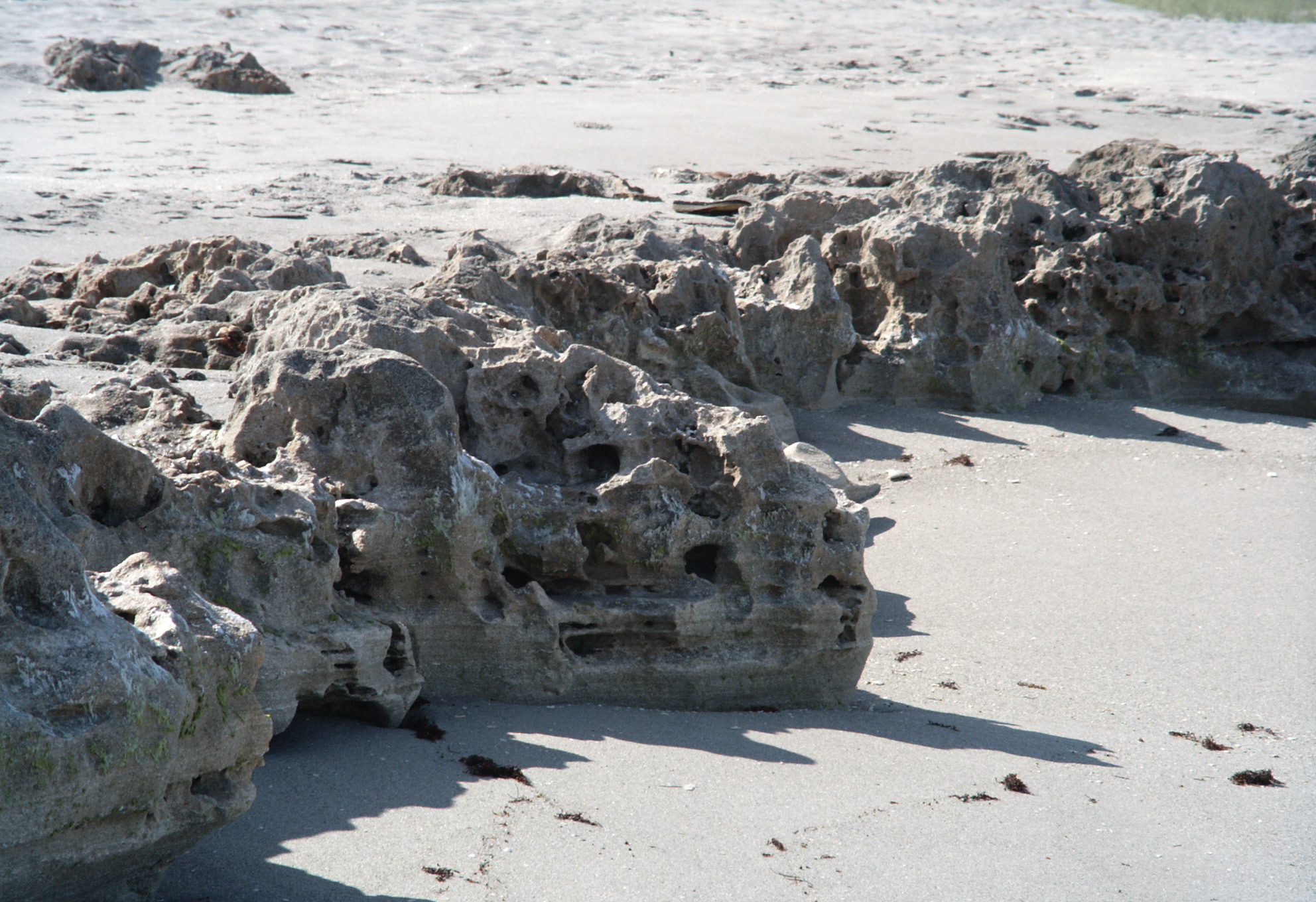 An outcropping of the Anastasia limestone formation seen along the shoreline of Blowing Rocks Preserve at low tide